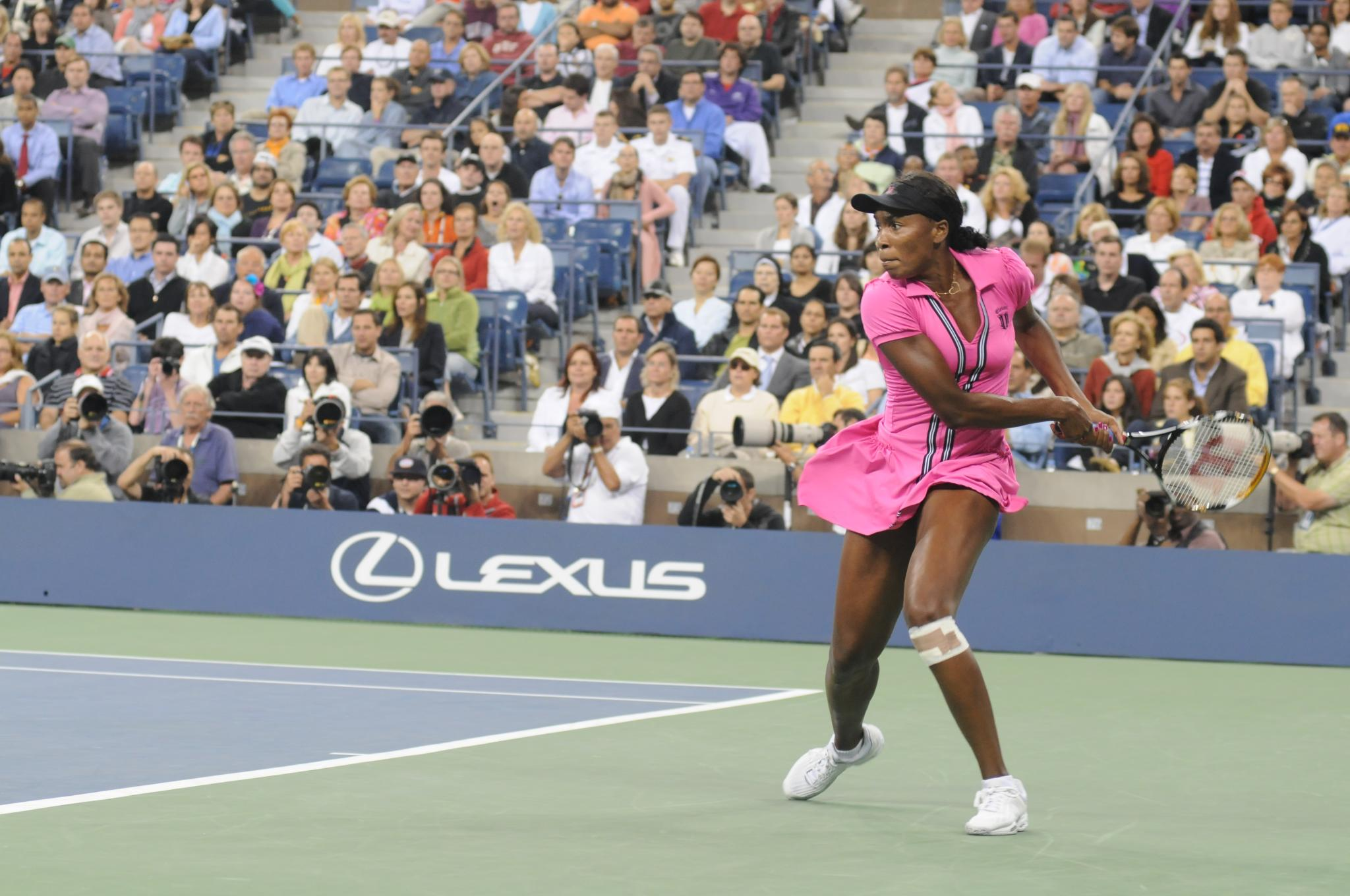 Venus Williams at the 2009 US Open